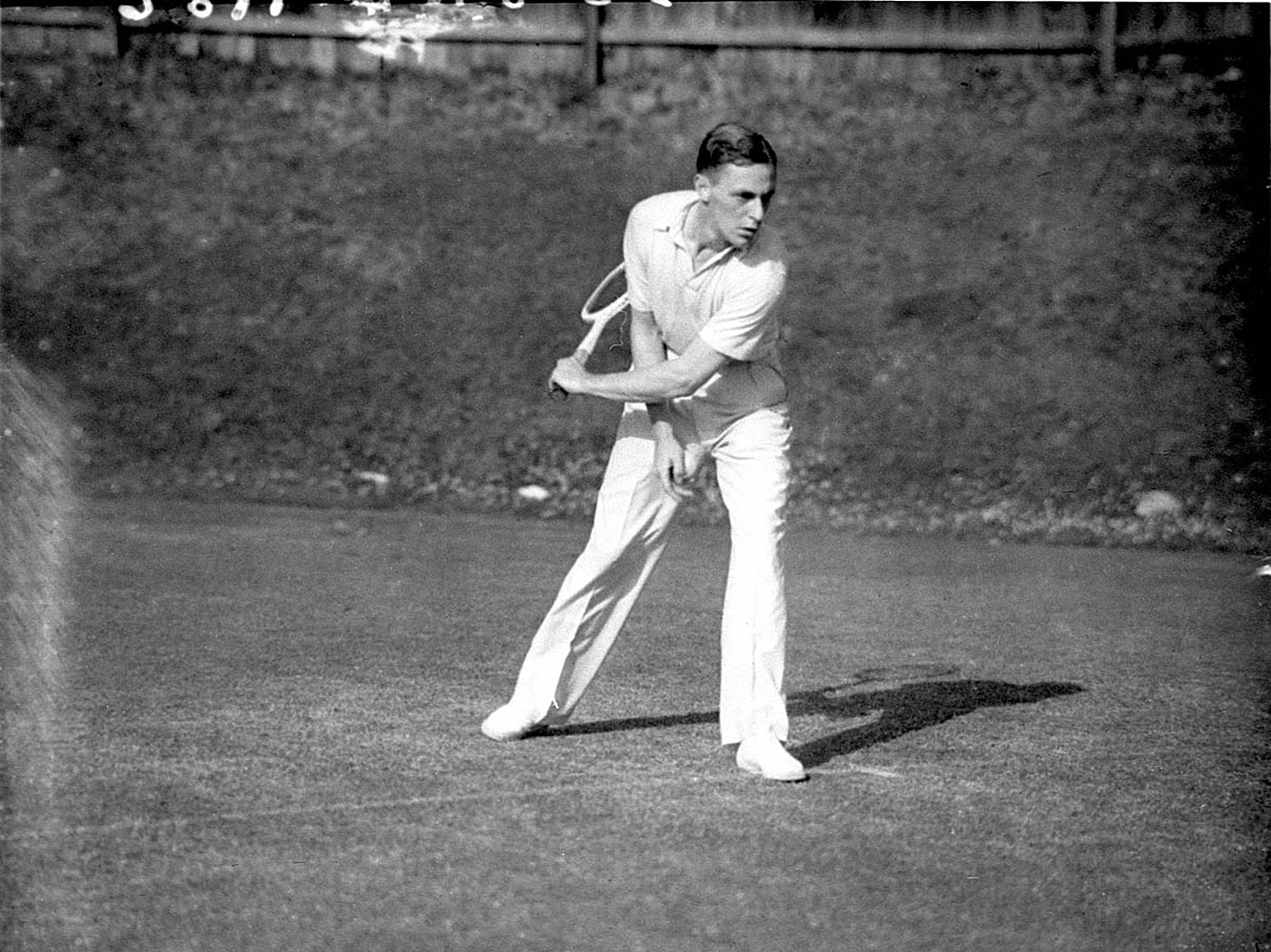 South African tennis player Vernon Kirby at the White City Stadium in Sydney, Australia